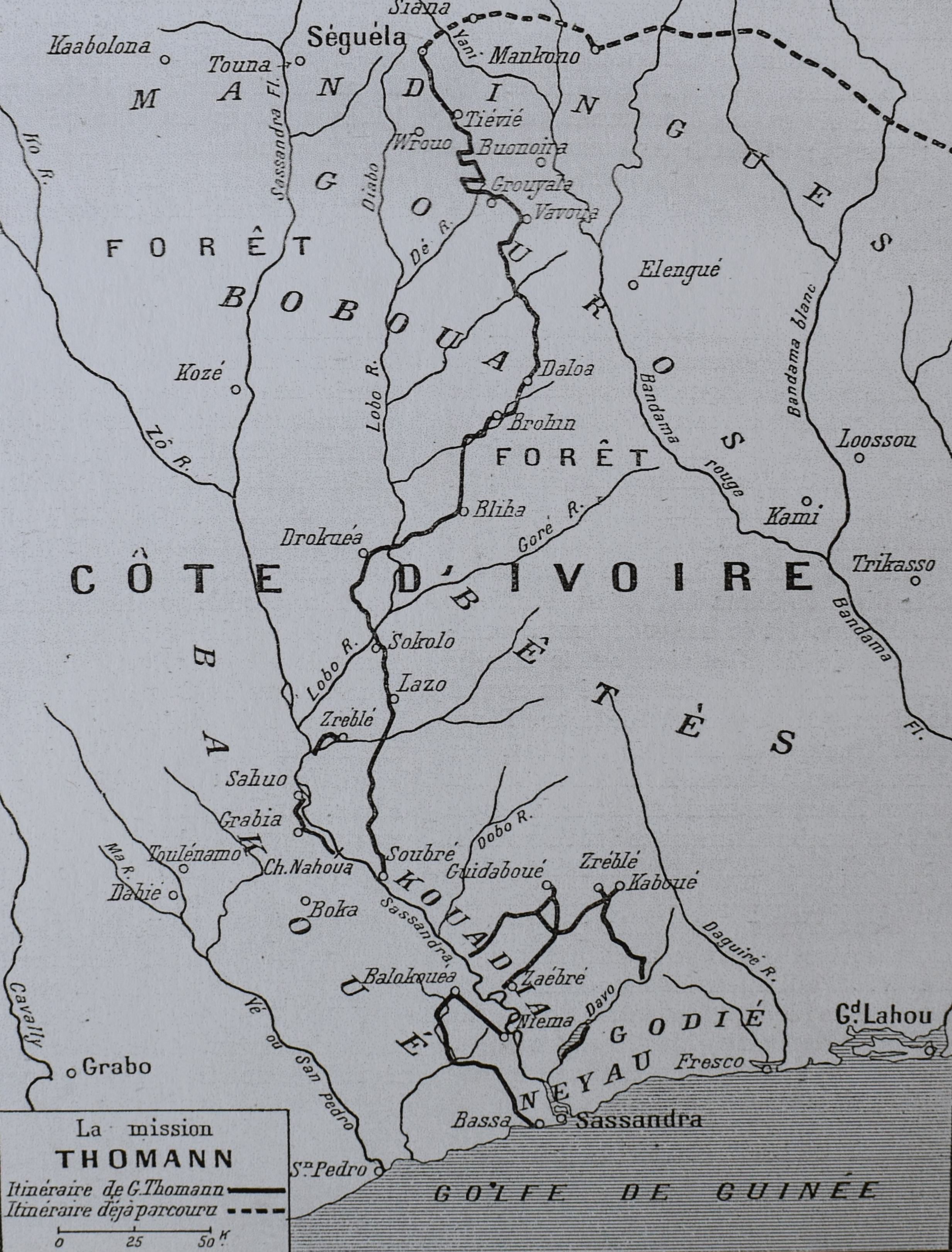 Itinéraire de Georges Thomann en 1902, lors de la première traversée de la forêt équatoriale de Sassandra à Séguéla en Côte d'Ivoire( In "Journal des voyages N° 340, 7 Juin 1903, page 21)